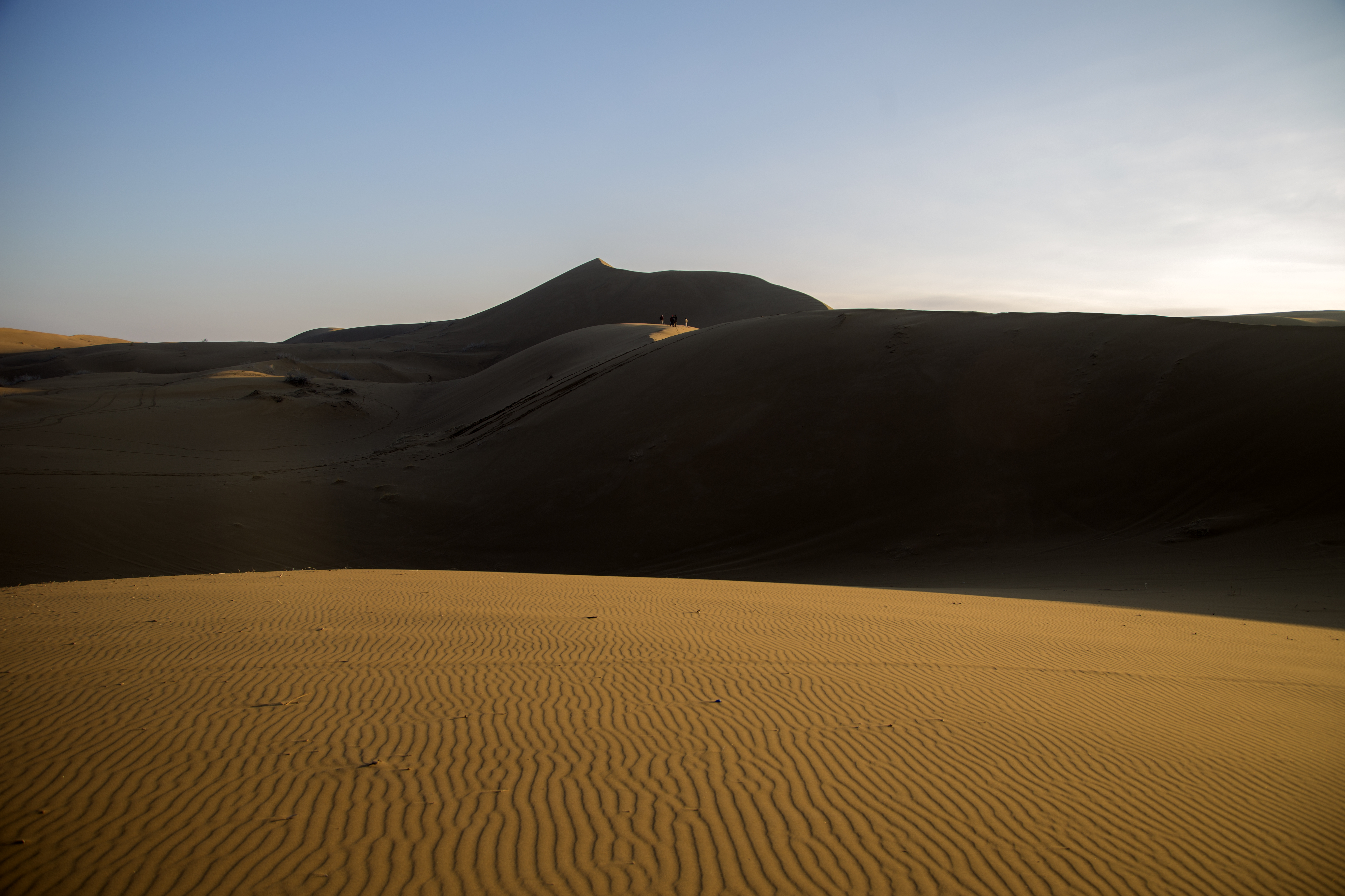 The Maranjab Desert is located in Aran va Bidgol, Iran and around 60 km north-east of Kashan.